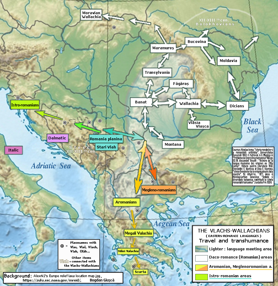 Map of the Vlachs-Wallachians, arrows since Bogdan Giusca, background [1] by Alexrk2. Books: see right side. See also File:Bolohoveni land from A.V. Boldur description.PNG and File:Map of medieval Vlach families in Herzegovina.jpg.